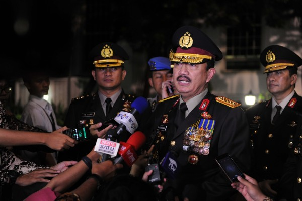 Budi Gunawan answered reporters' questions after the inauguration, Friday (9/9), at the Presidential Palace Complex, Jakarta